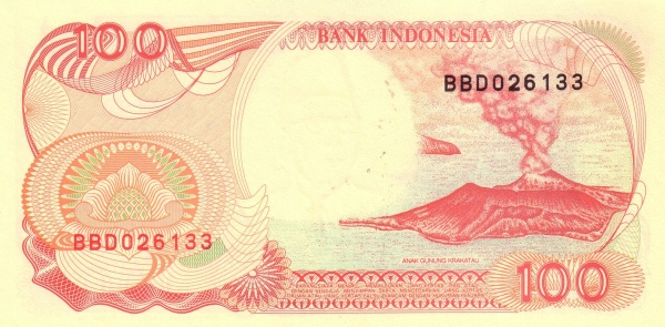 Indonesian currency issued 1976-2000.